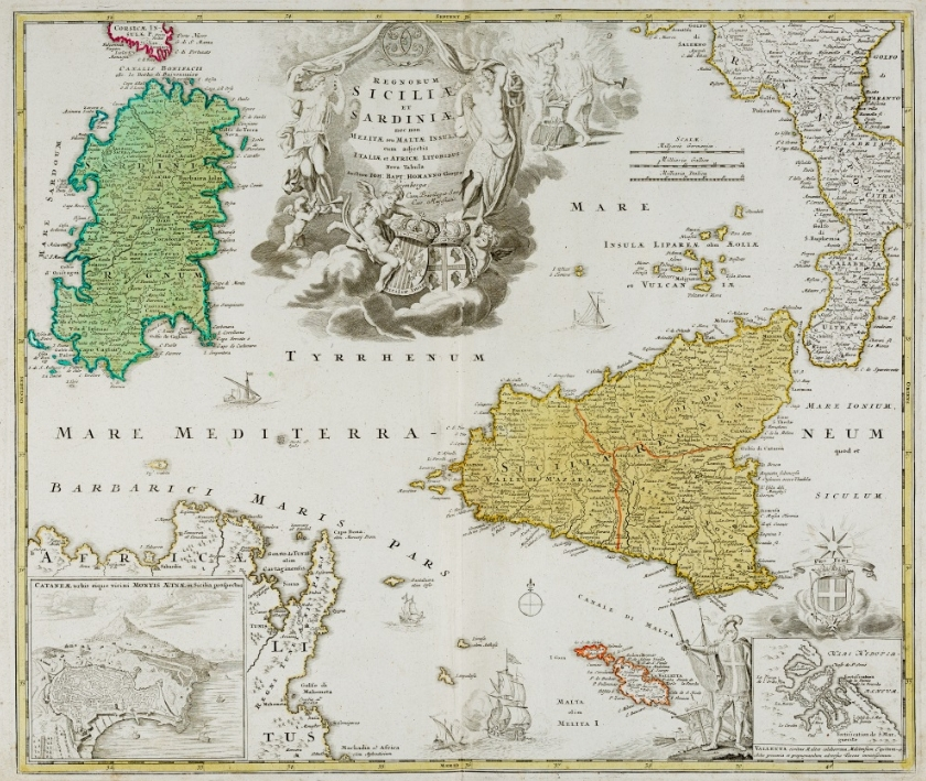 Vèneto: Johannes Baptiste Homann-(Norimberga - 1720 )-Coeŝion personae.